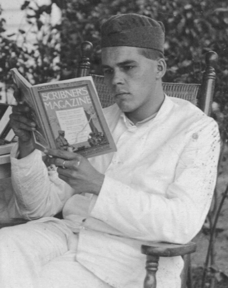 Scope and content: Photographer: Paul Thompson